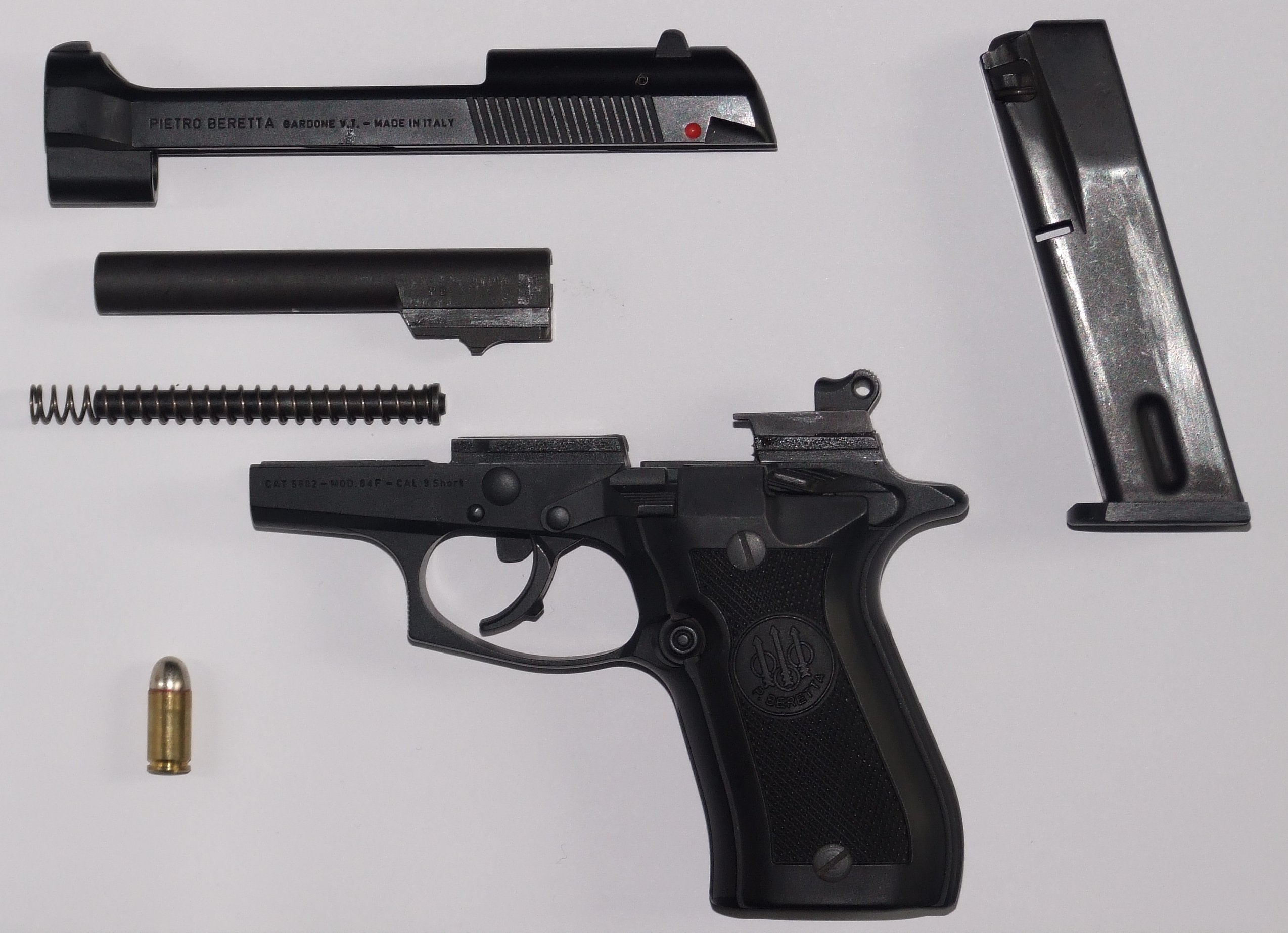 Italian pistol Beretta 84F caliber 9mm Short (380 ACP, 9mm Browning)